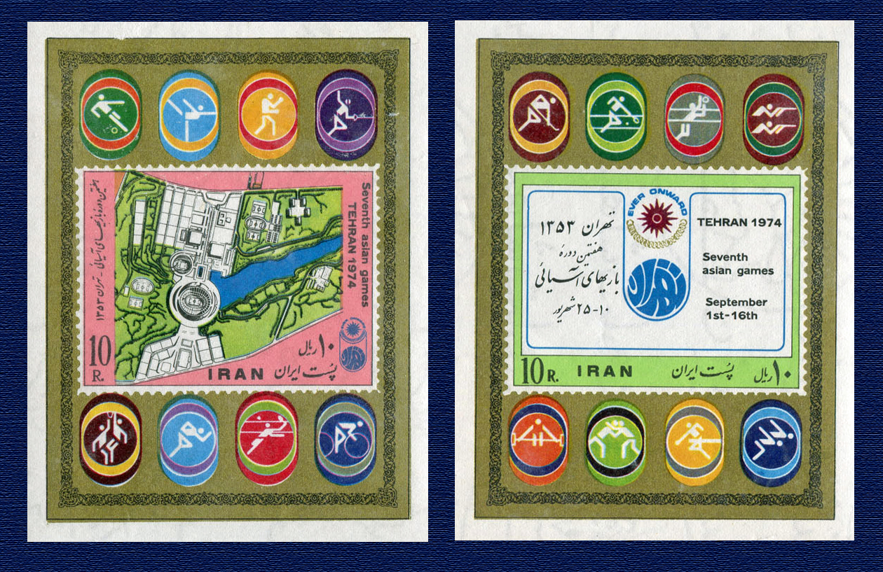 Commemorative stamps of the 7th Asian games, 1974, Tehran, Iran. Courtesy of Iran Collection for lending the stamp for scanning